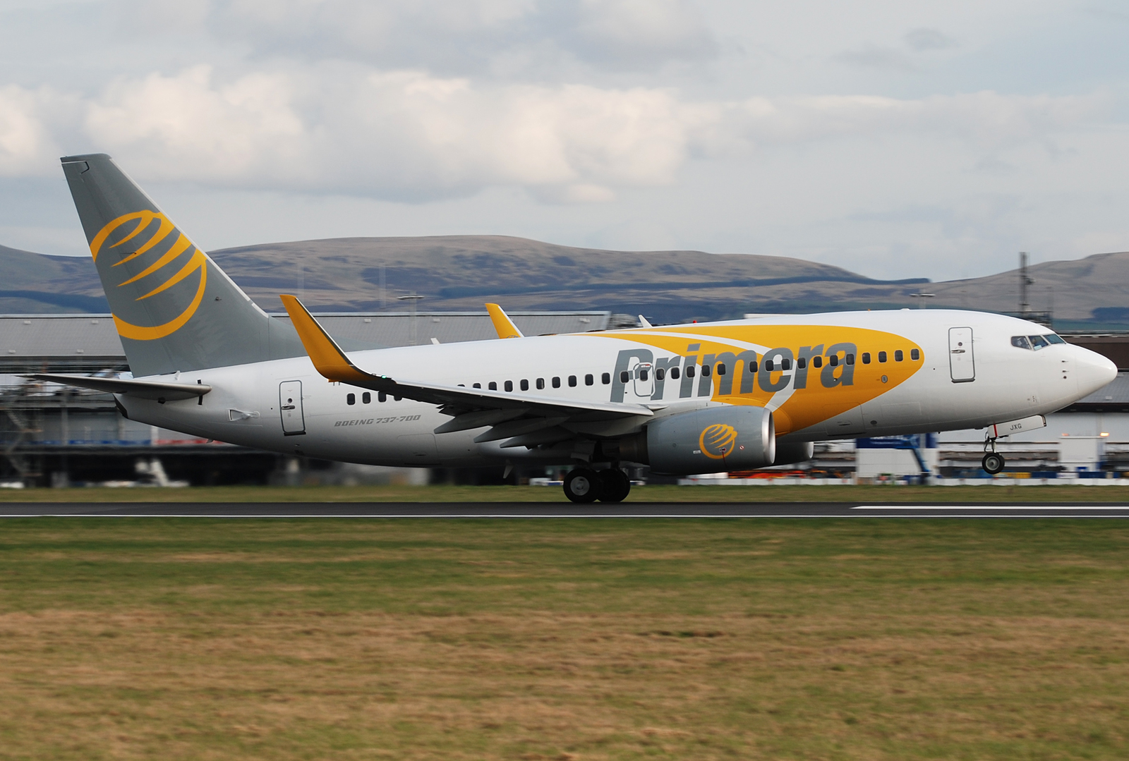 Primera Air Boeing 737-7Q8 TF-JXG at Edinburgh Airport